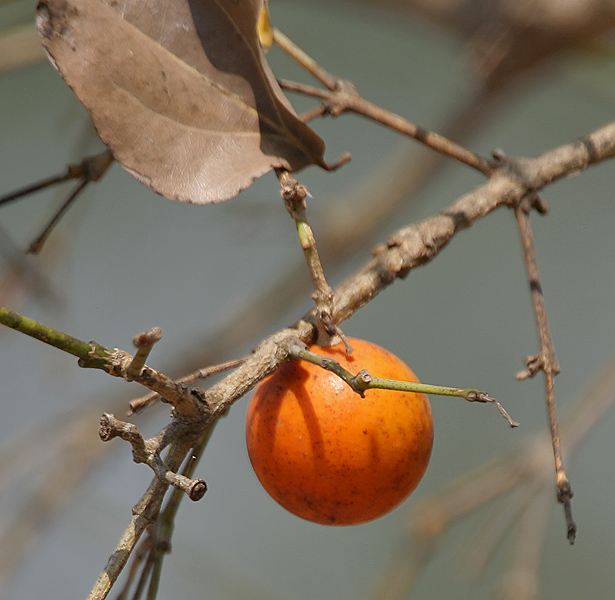 Poison Nut, Semen strychnos, Quaker Buttons, Strychnine tree or Nux vomica Strychnos nux-vomica in Kinnerasani Wildlife Sanctuary, Andhra Pradesh, India.